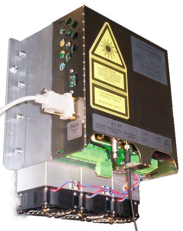 Diodenlaser / diode laser, 45 Watt, 808nm, fasergekoppelt / fibre coupled (F-SMA, 0,6mm core diameter), air cooled